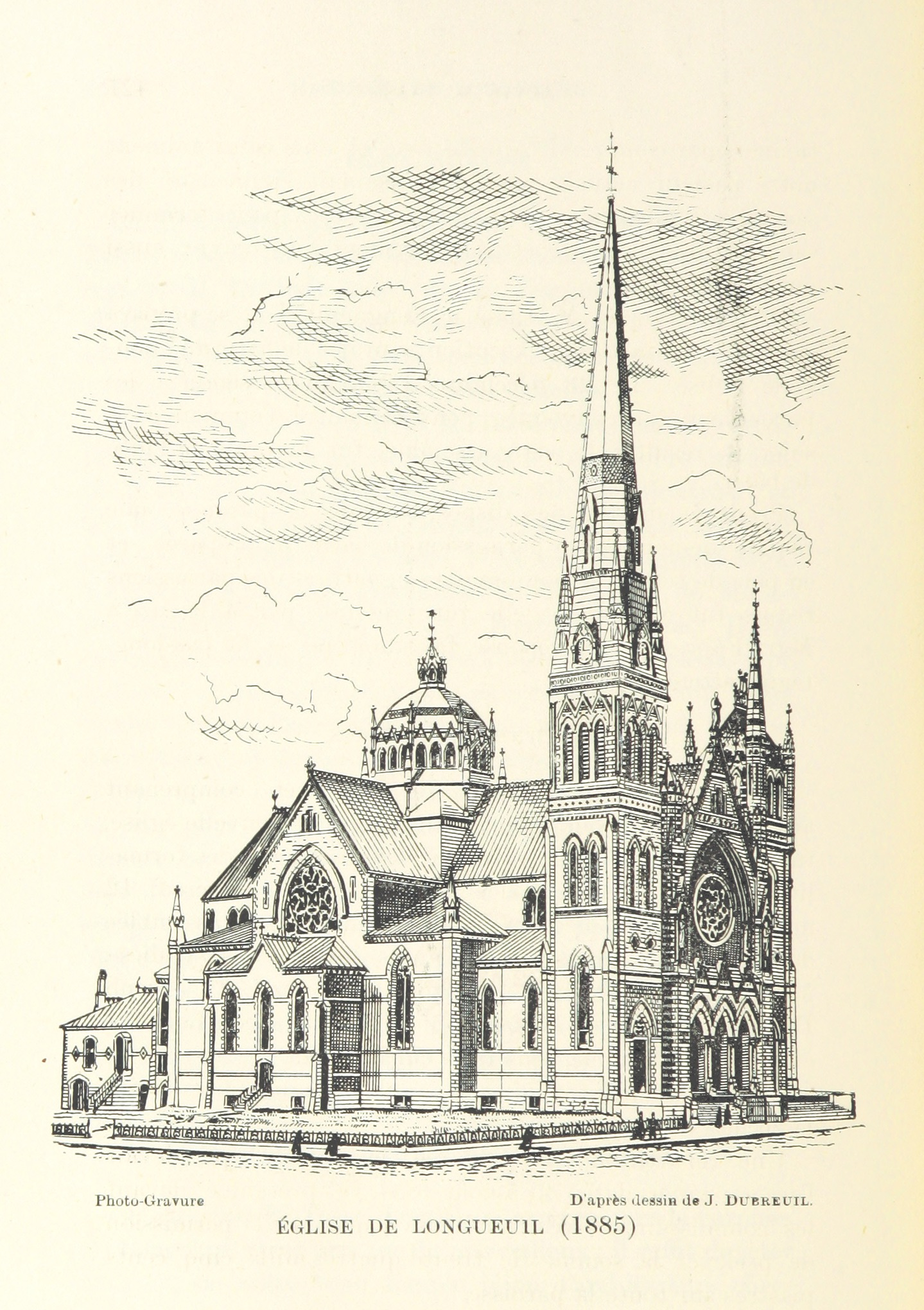 Image taken from: Title: "Histoire de Longueuil et de la famille de Longueuil. Avec gravures et plans" Author: JODOIN, Alex - and VINCENT (J. L.) Contributor: VINCENT, J. L. Shelfmark: "British Library HMNTS 10470.f.26." Page: 456 Place of Publishing: Montréal Date of Publishing: 1889 Issuance: monographic Identifier: 001878522 Note: The colours, contrast and appearance of these illustrations are unlikely to be true to life. They are derived from scanned images that have been enhanced for machine interpretation and have been altered from their originals. Following this or the link above will take you to the British Library's integrated catalogue. You will be able to download a PDF of the book this image is taken from, as well as view the pages up close with the 'itemViewer'. Click on the 'related items' to search for the electronic version of this work. Click here to see all the illustrations in this book and click here to browse other illustrations published in books in the same year. Please click on the tags shown on the right-hand side for other ways to browse the illustrations.